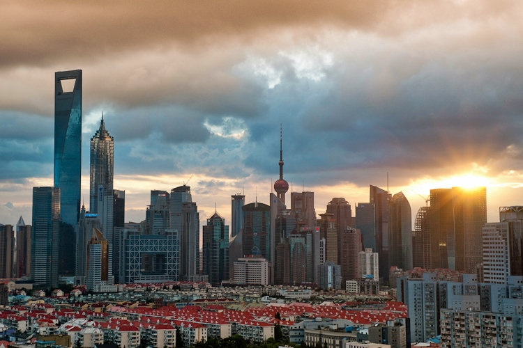 Pudong, Shangai, China.